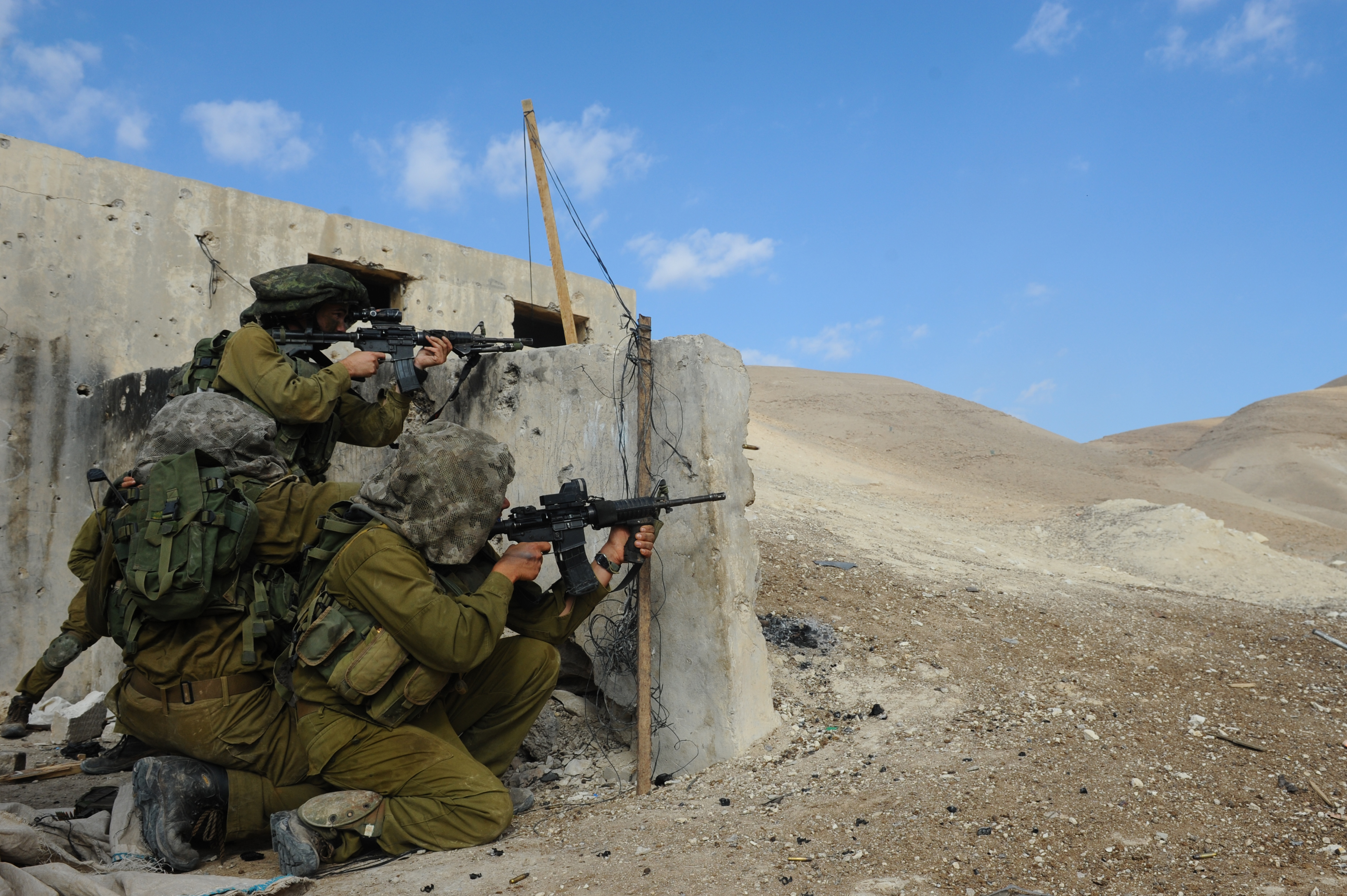 December 16, 2012 They don't just parachute: the Paratroopers Brigade's Reconnaissance Battalion practice urban warfare in a live-fire drill, meant to stimulate the reality of fighting in densely populated areas. During the exercise, the combat engineering company practiced taking over a building, all the while taking care to minimize uninvolved casualties. Photographer: Sgt. Shay Wagner, IDF Spokesperson's Unit For more from the IDF